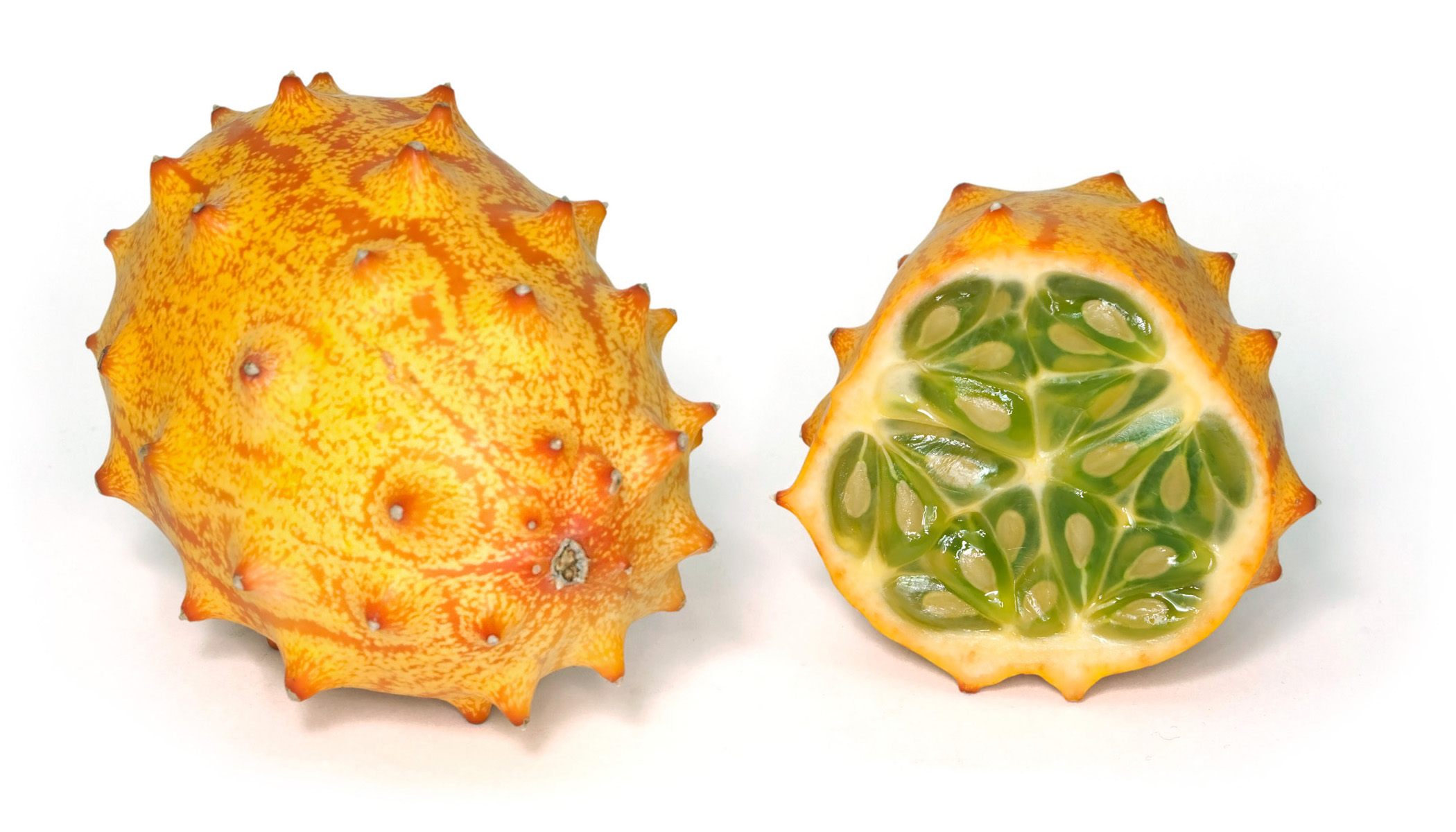 A Horned melon (or kiwano)